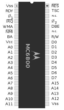 Motorola 6800 pinout